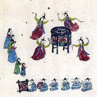 The picture in Gyobang Gayo, a music book depicts mugo, Korean court drum dance.